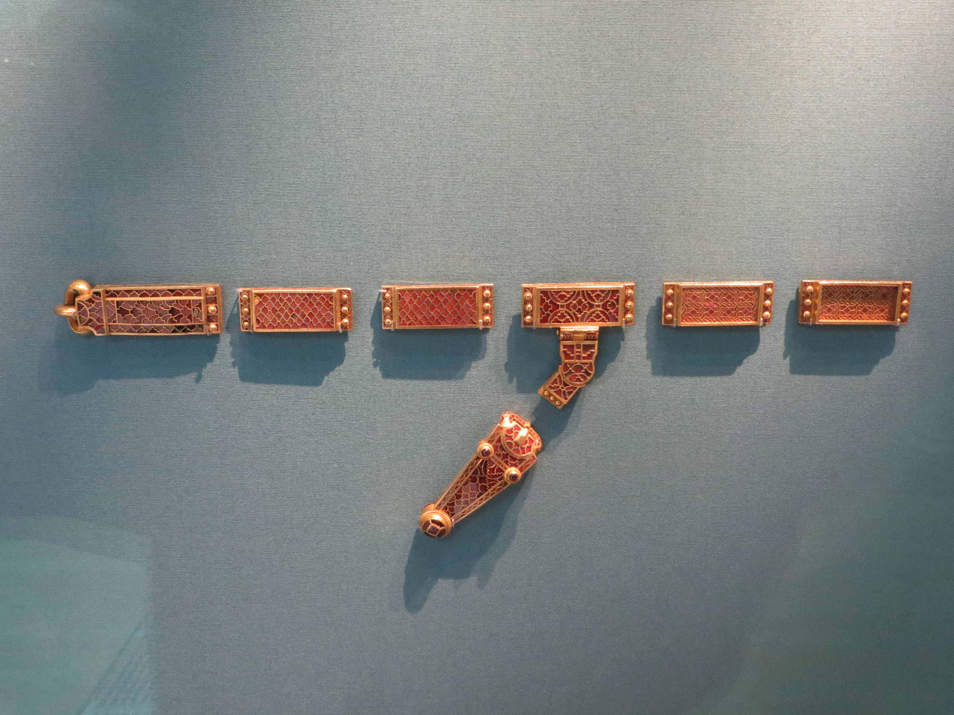 Items from the Sutton Hoo Ship burial in the British Museum